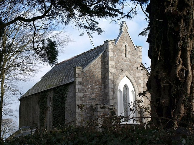 Tregeare Methodist chapel The C19 chapel was sold as a private dwelling in 2005, surrounded as it is by a graveyard.